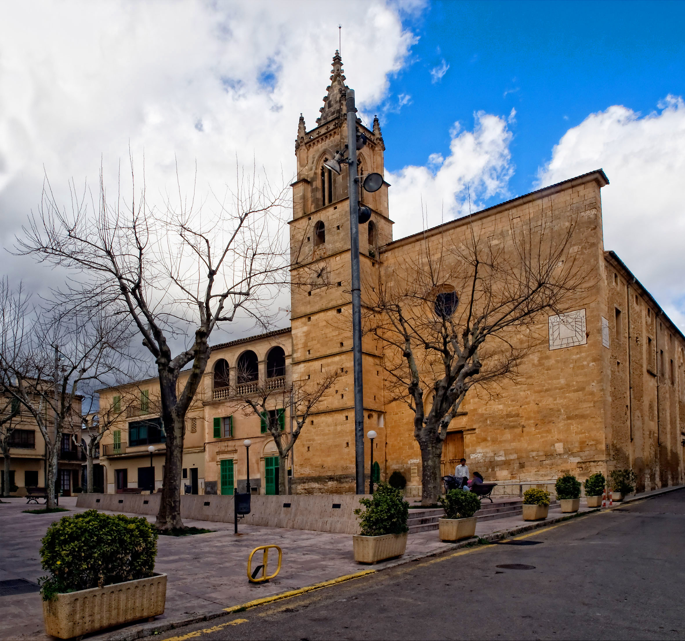 Llubí church (Mallorca)